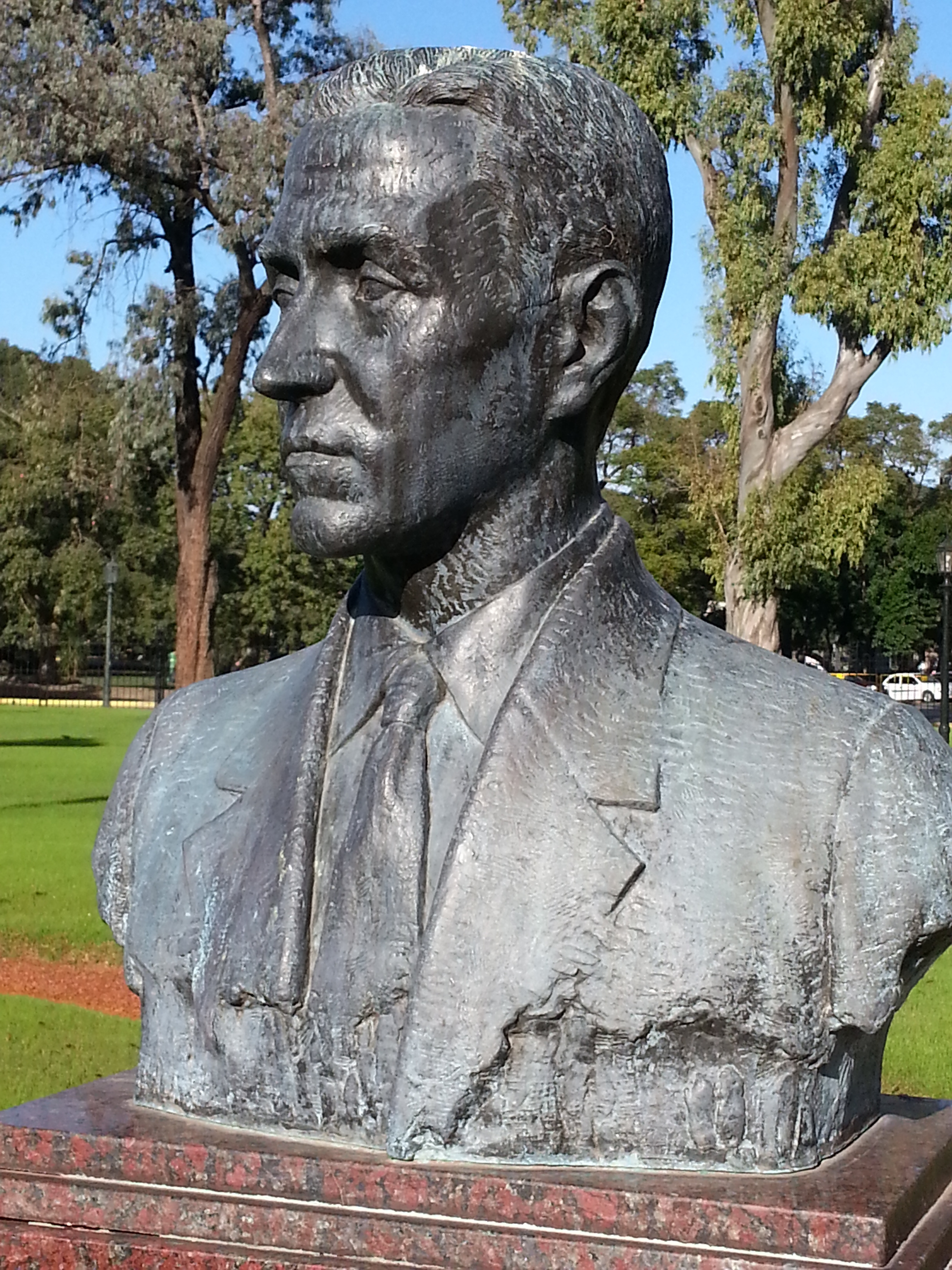 Bust of Ramón Pérez de Ayala. Paseo de los Poetas, El Rosedal, Buenos Aires, Argentina.